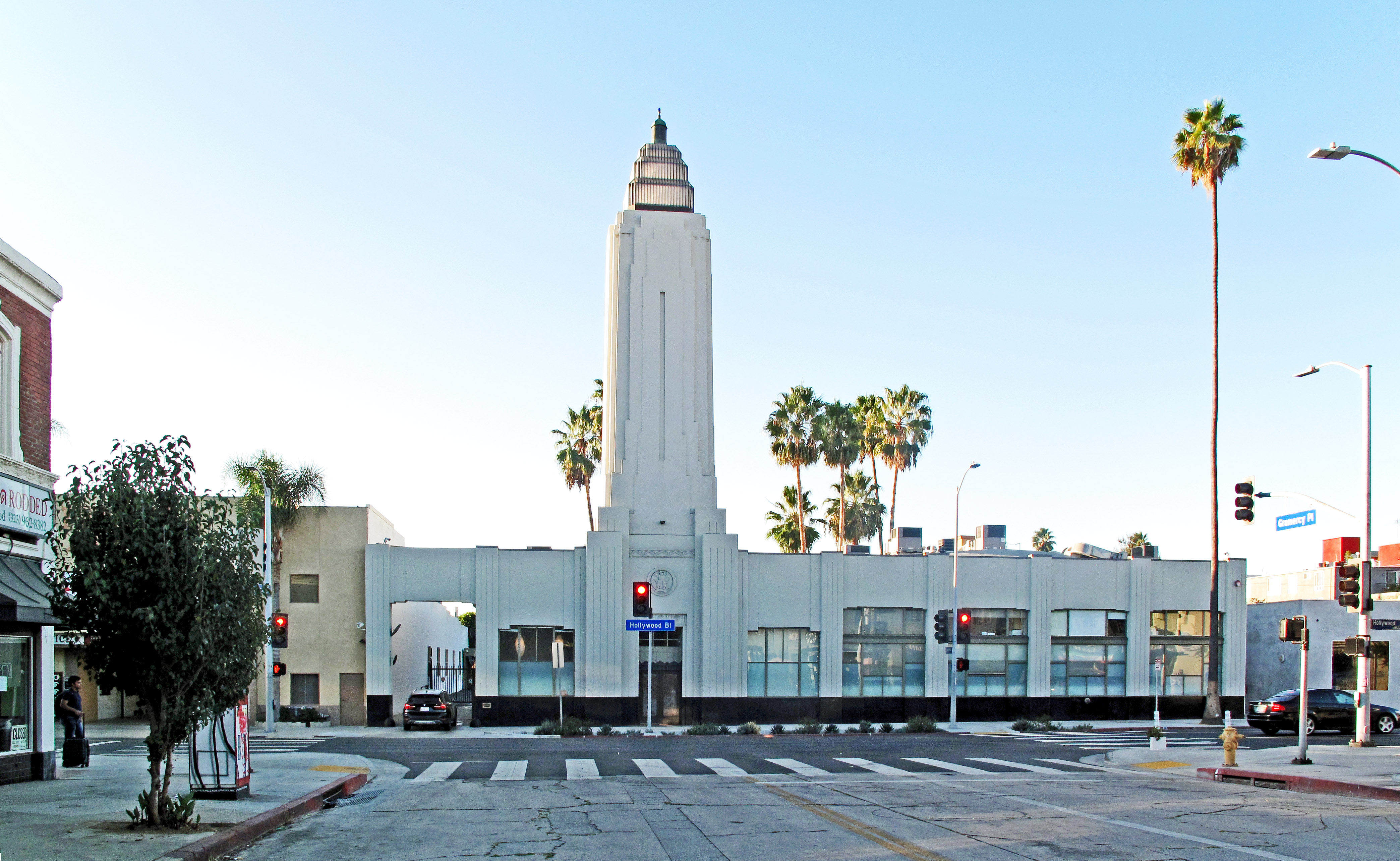 5618-30 Hollywood Blvd, Los Angeles. This building was used as the movie theater in the film L.A. Confidential.